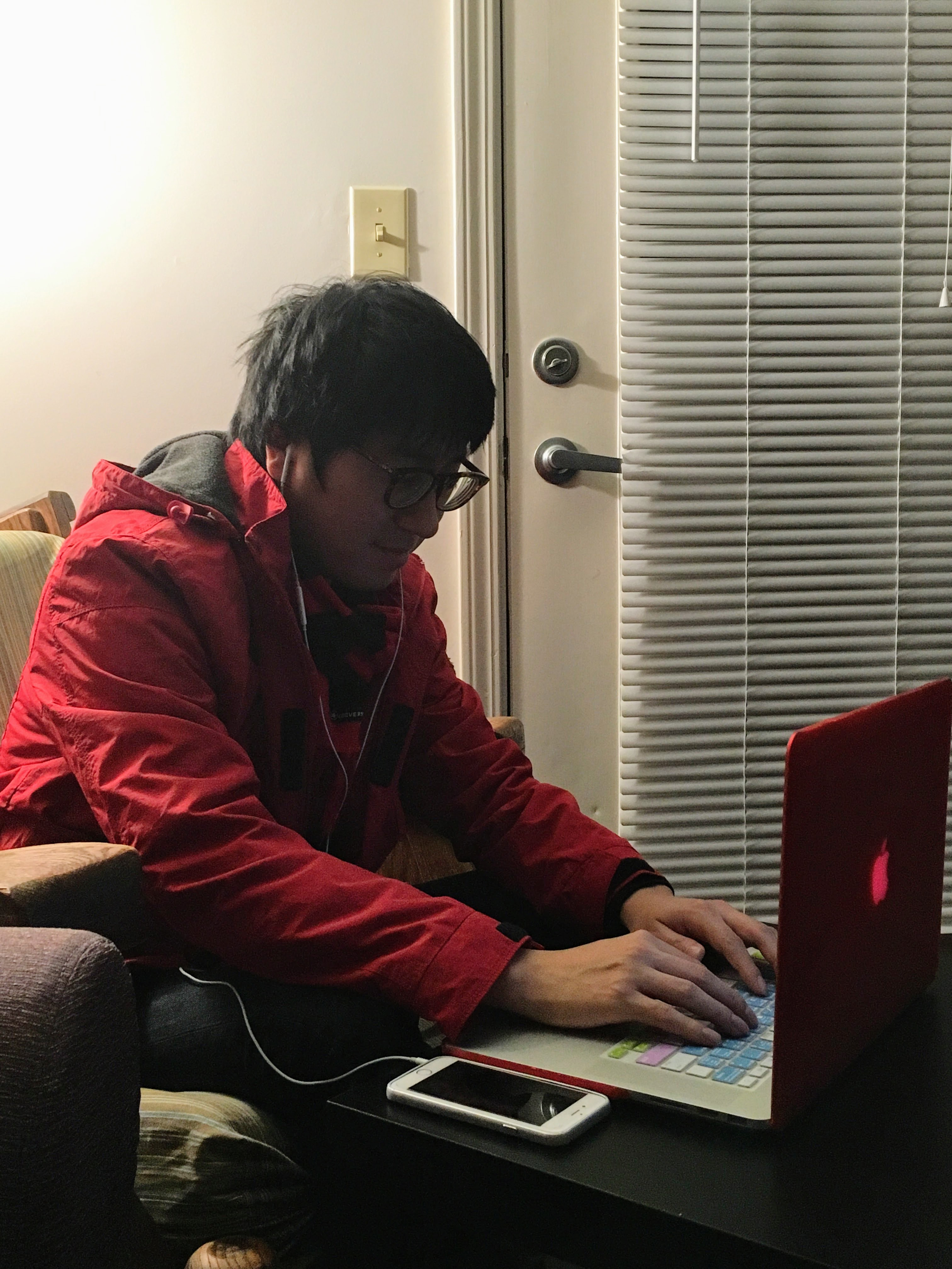 Herbivore men usually dress fashionably and are tech savvy